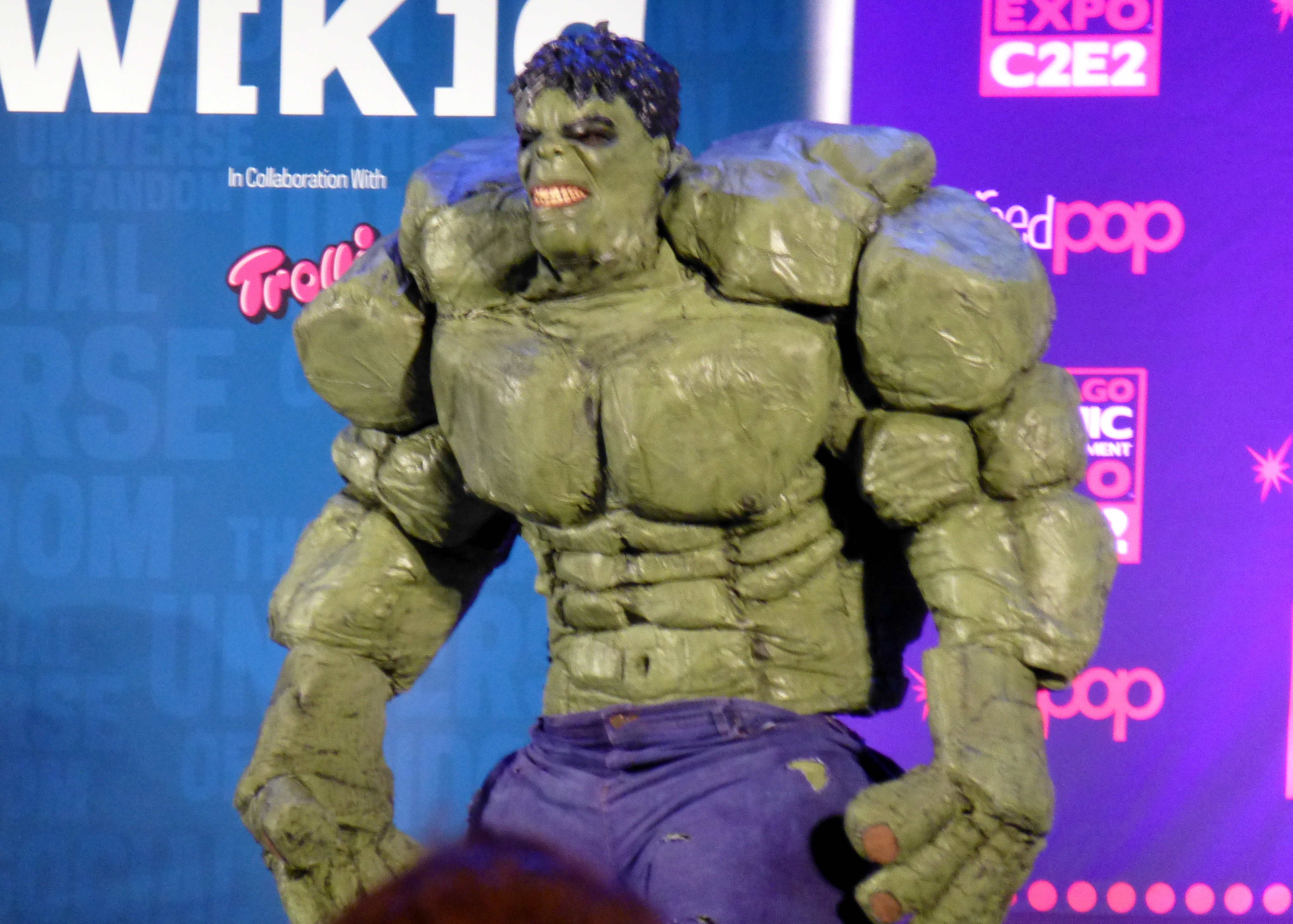 John Quade cosplaying as the Incredible Hulk (from Marvel Comics) in the First Annual Chicago Comic & Entertainment Expo (C2E2) Crown Championships of Cosplay in 2014.